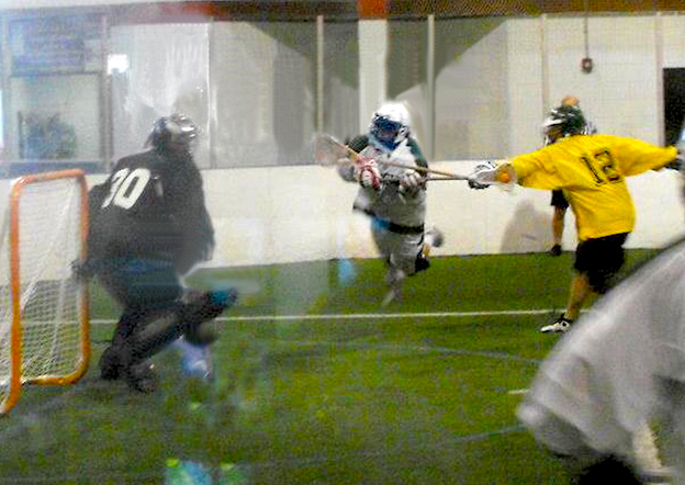 These images of Continental Indoor Lacrosse League Action action during the 2012 season and are from the collection of Devan Mighton.